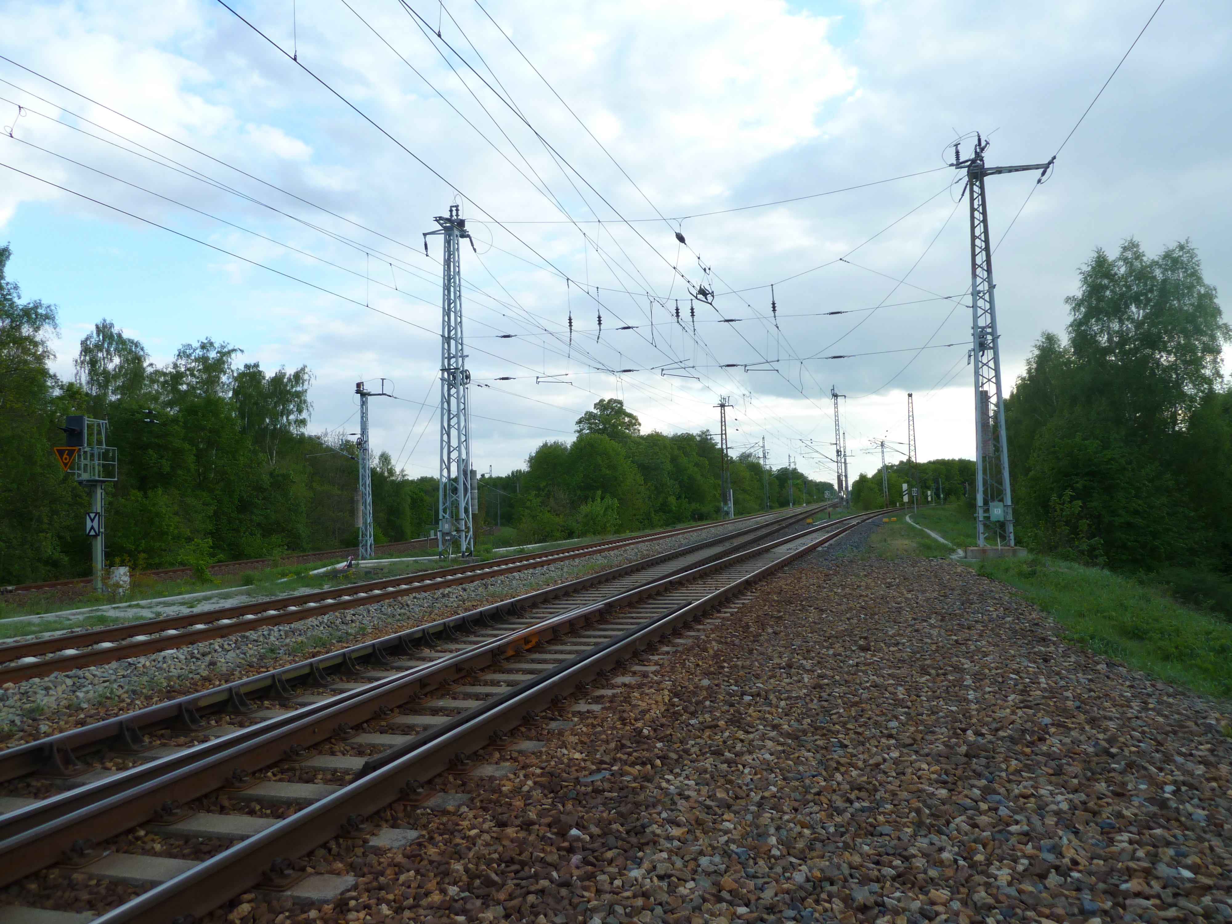 former railway station Falkenhagen (Kr Nauen), switches to Brieselang (right) and Falkensee (left)